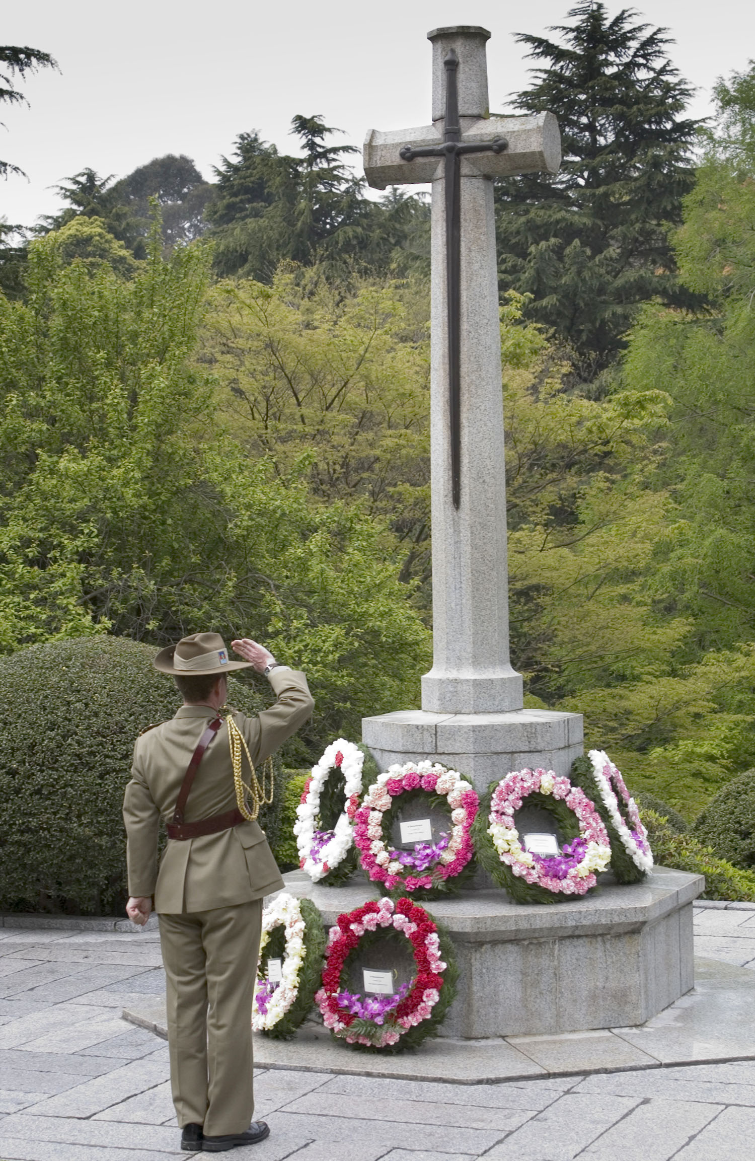 Yokohama, Japan (April 25, 2006) - Representative of the Australian Defense Force, Major General David Morrison salutes a cross after laying a wreath, in the Hodogaya British Commonwealth War Cemetery, in honor of Australian and New Zealand Army Corps (ANZAC) soldiers who have died in war. ANZAC Day is celebrated in remembrance of the first ANZAC operation at Gallipoli, Turkey on April 25, 1915. U.S. Navy photo by Photographer's Mated 2nd Class John L. Beeman (RELEASED)